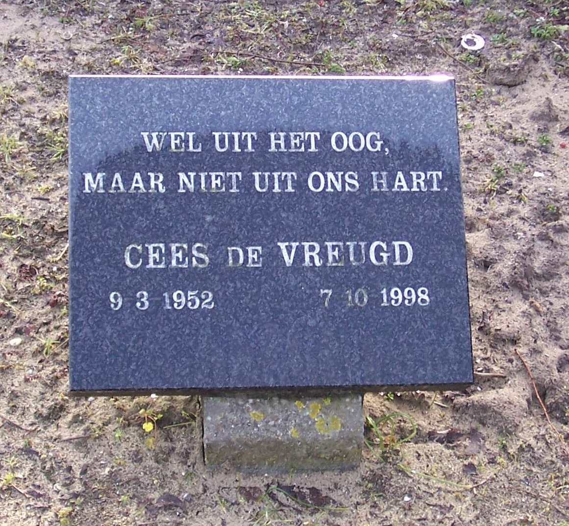 Cees de Vreugd, cemetary Duinrust, Katwijk aan Zee, the Netherlands